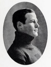 Troy athletic director George W. Penton